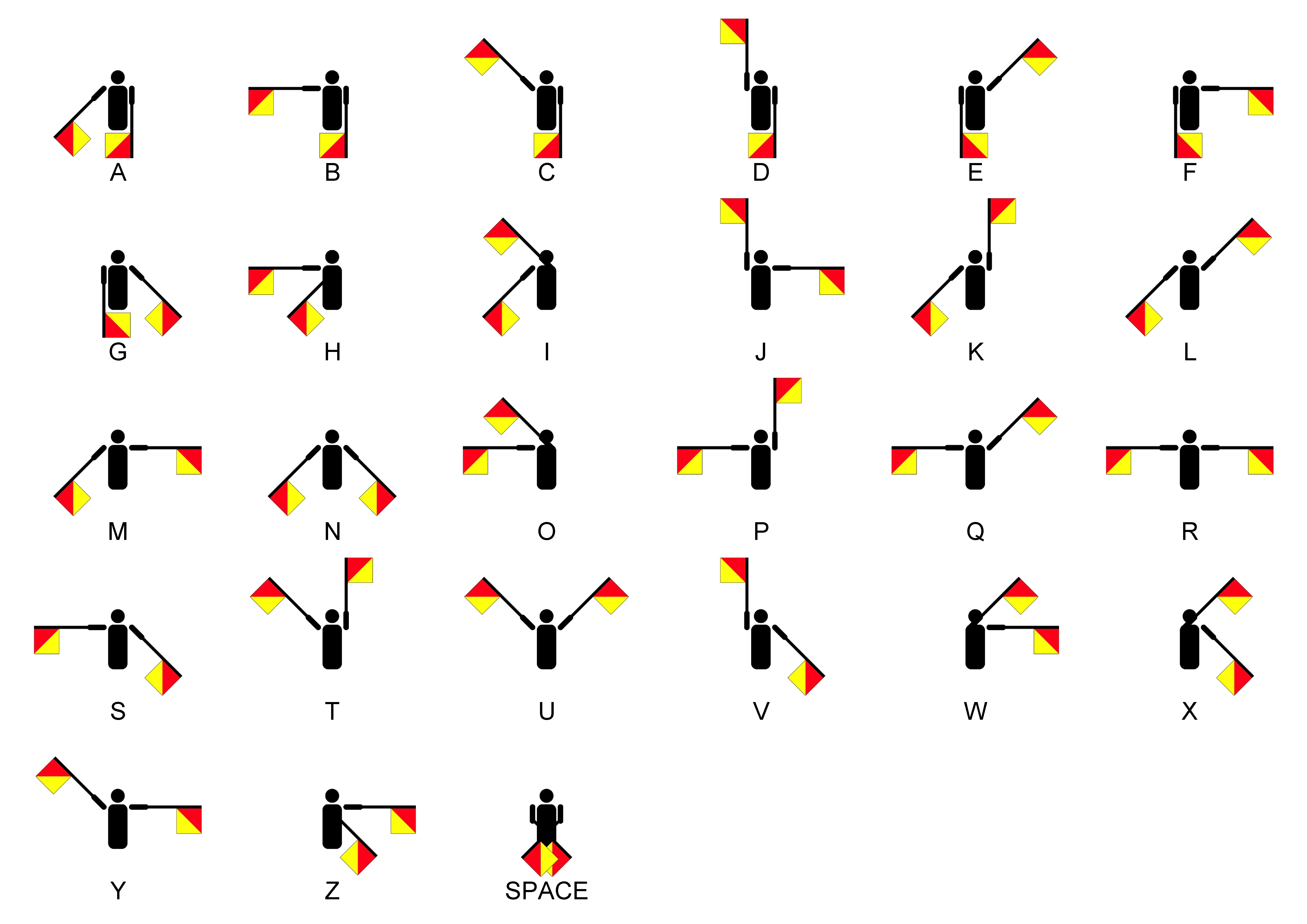 Semaphore signals chart for the letters of the English alphabet, plus space. Based on the diagrams at and modified into a chart from the individual drawings by Denelson83